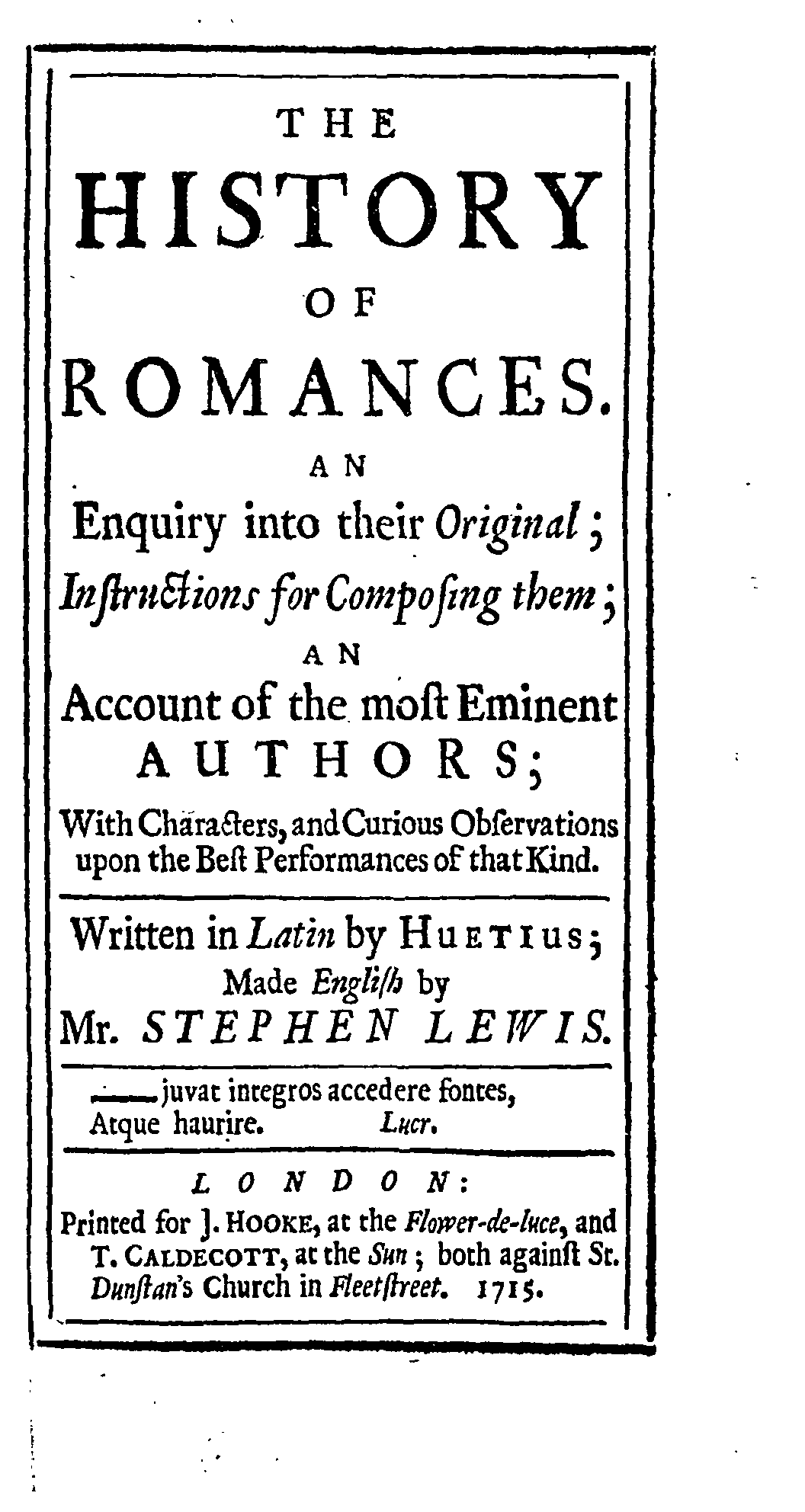 Title page of Huet, Pierre-Daniel. The history of romances. An enquiry into their original; instructions for composing them; an account of the most eminent authors; ... Written in ... London: printed for J. Hooke, at the Flower-de-luce, and T. Caldecott, at the Sun; both against St. Dunstan's Church in Fleet Street, 1715.